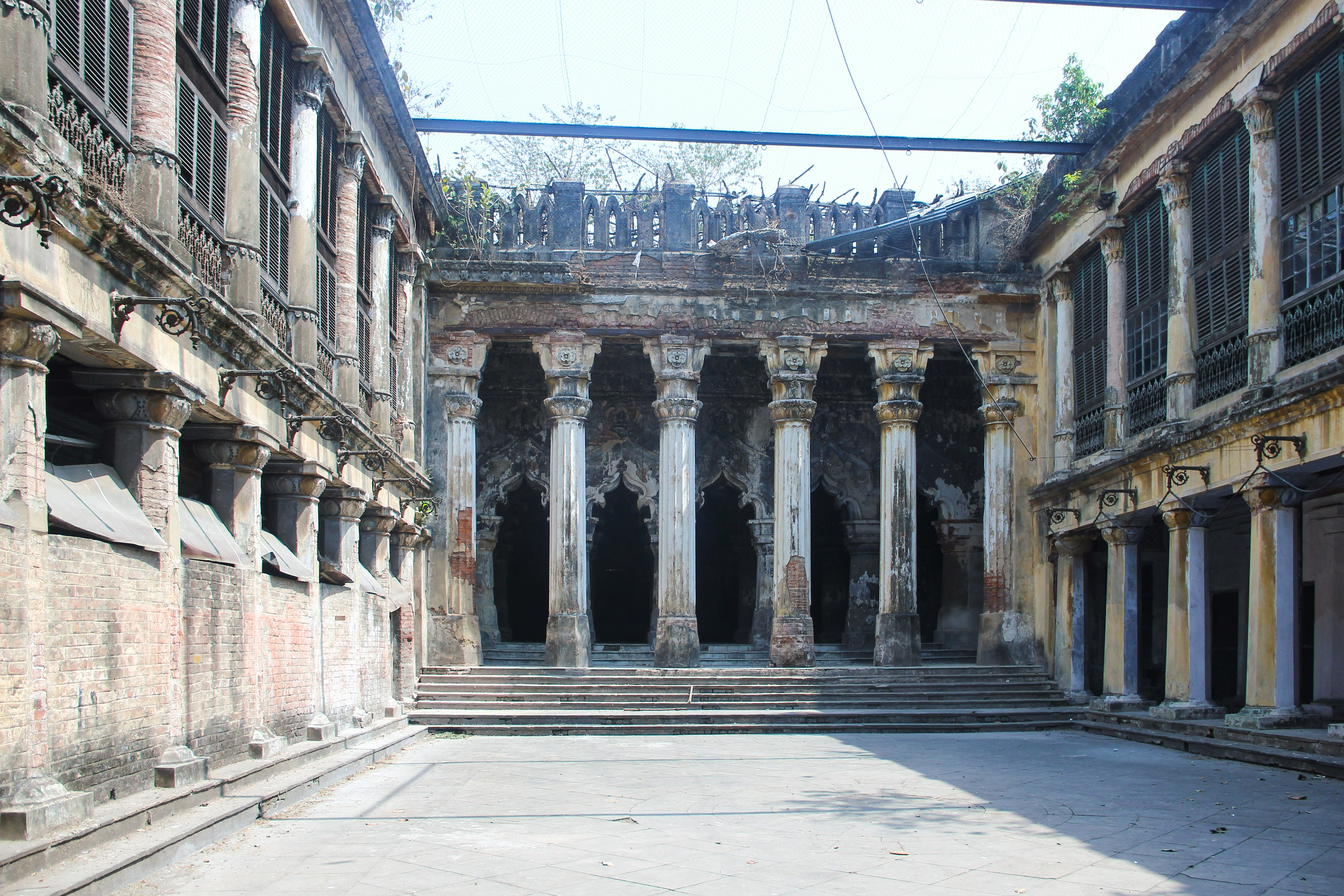 This image was taken in Basu Bati of Bagbazar in Kolkata